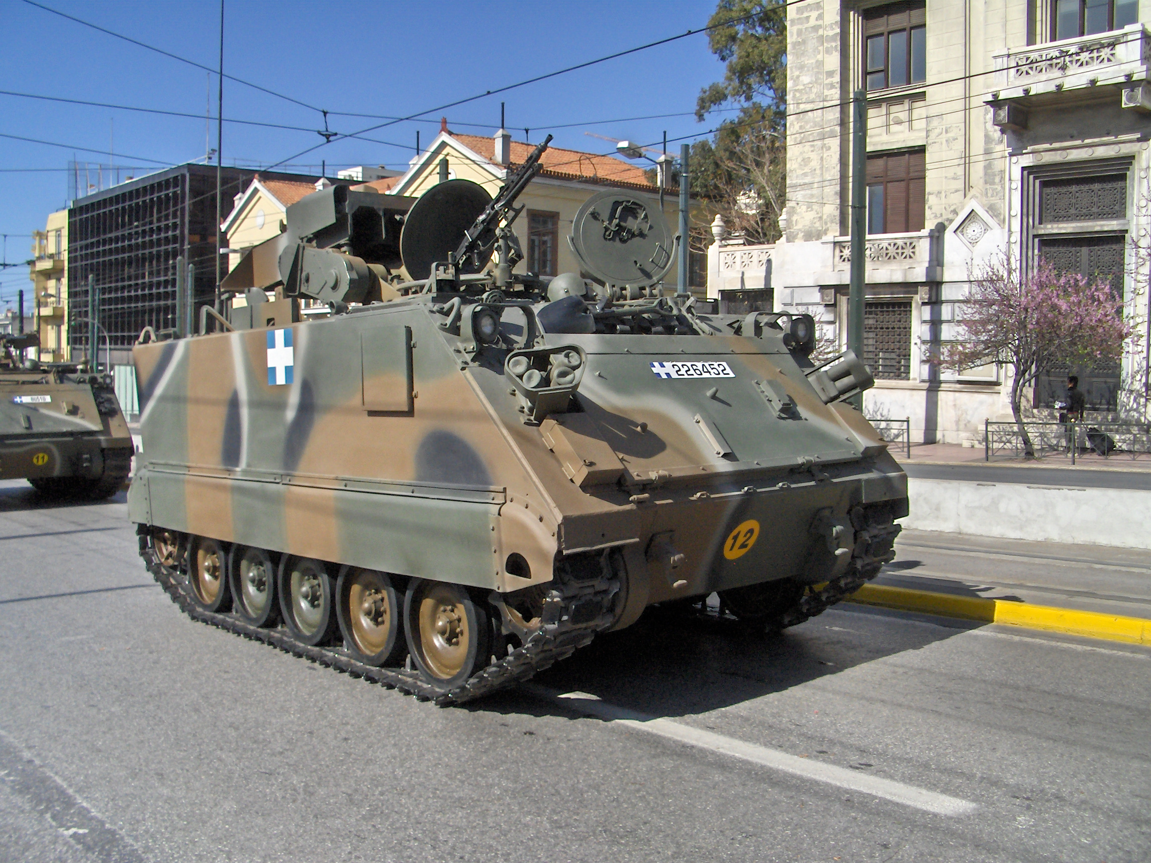 Hellenic Army armoured vehicle at the parade in Athens.